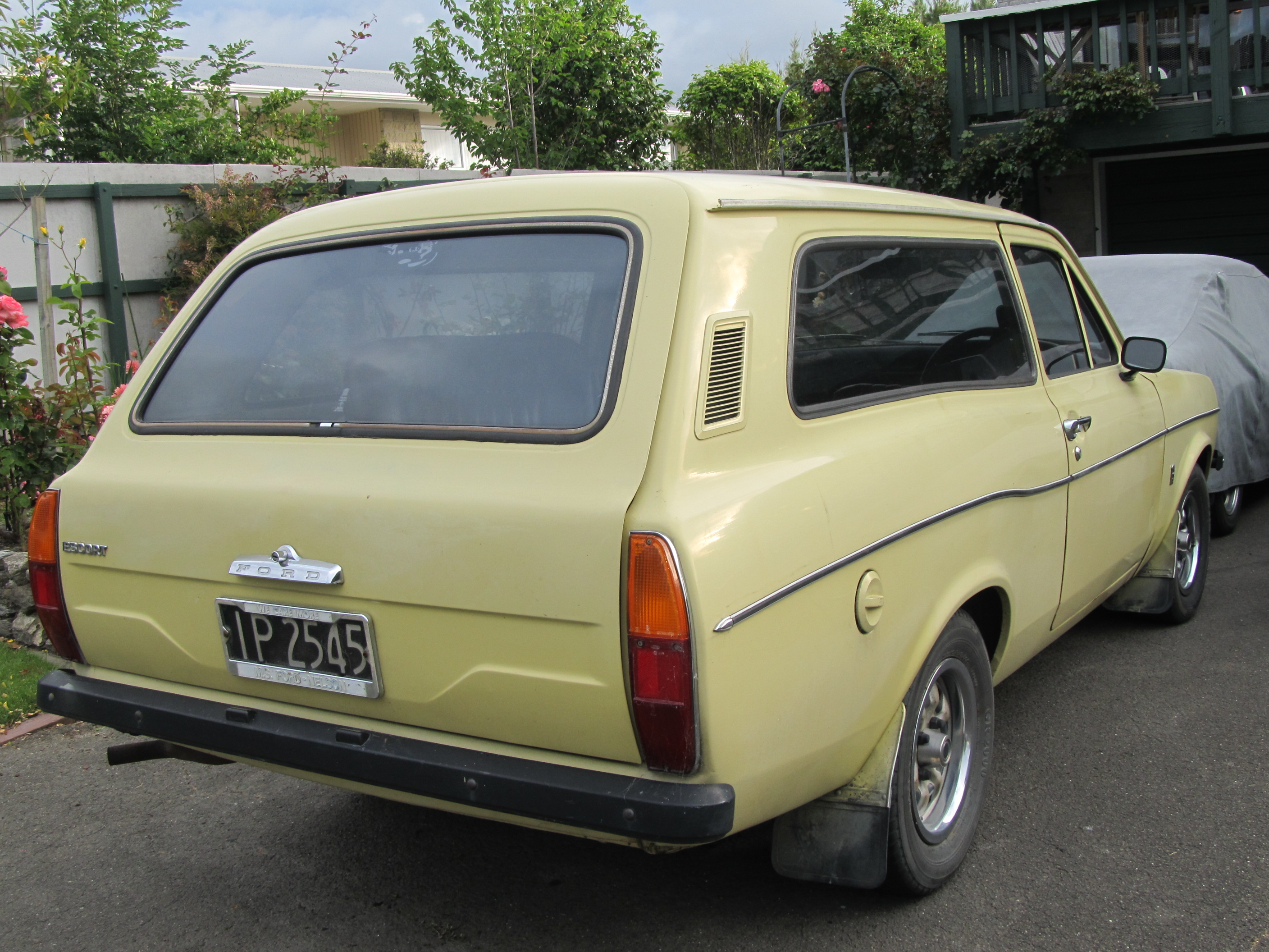 IP2545 Well, this guy is a serious Ford enthusiast. Two MkII Escort estates visible, plus four more under covers plus some Cortinas! This one was a goodie, and very original. In case you're wondering where I've gone, I'm on holiday in Nelson! This particular Ford household is in Richmond, less than two kilometres from my accomodation...